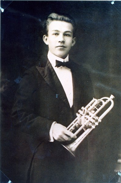 Sensational Cornet Player, Kauppi.